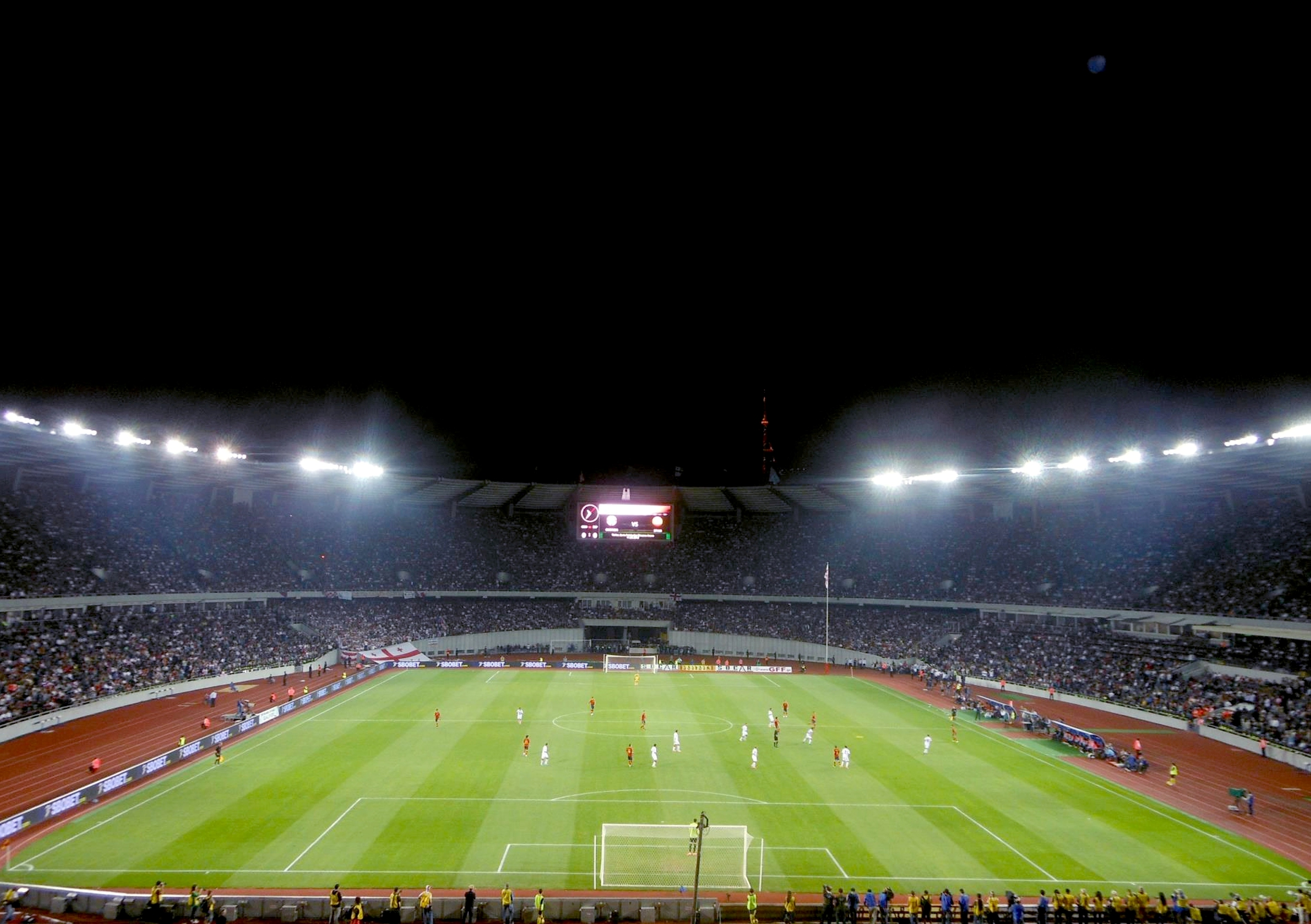 "Dinamo Arena" Georgia - Spain FIFA World Cup 2014 Qualifier - 11.09.12